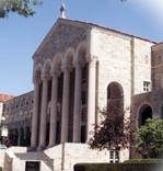 Photograph of the Athenaeum of Ohio, facade of the main building as it faces Beechmont.